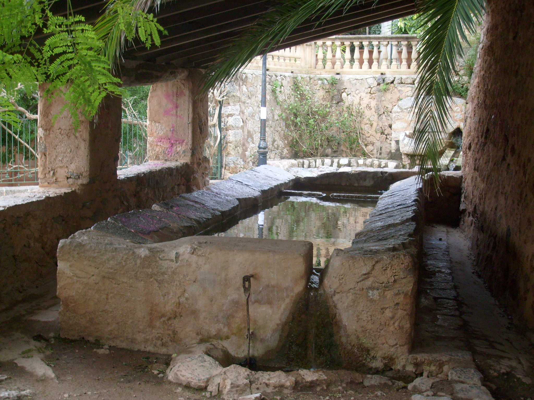 Biniaraix rentador